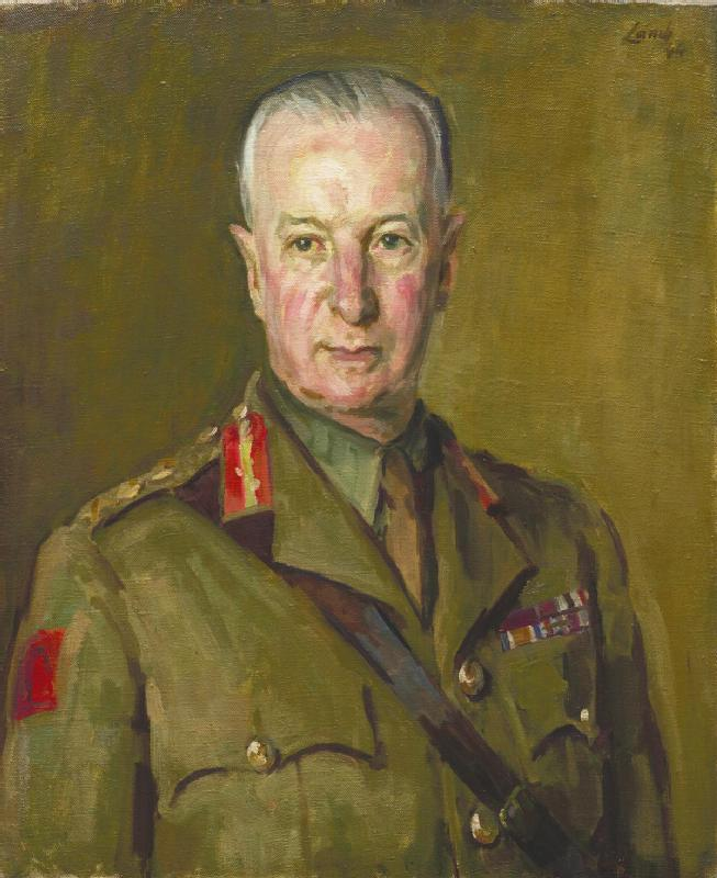 General Sir Frederick Pile, Kcb, Dso, Mc image: a head and shoulder portrait of General Sir Frederick Pile in uniform.